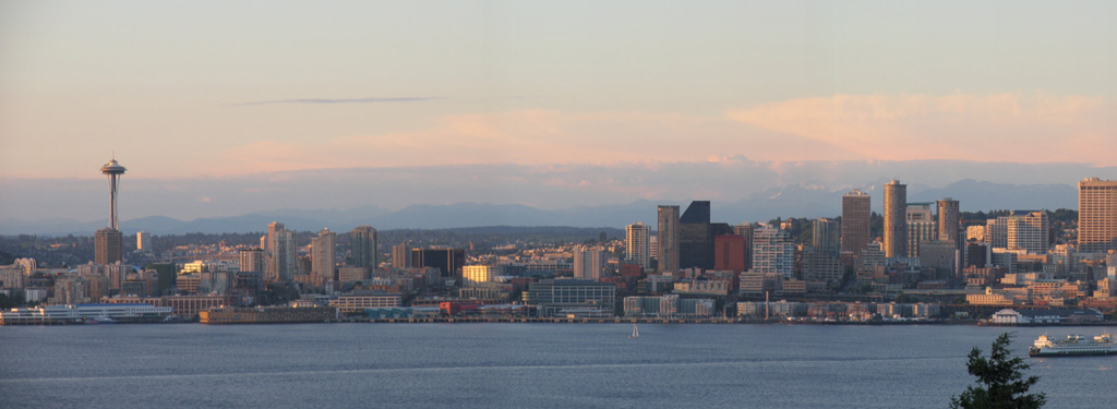 A photo I took of my beloved city from Belvedere Viewpoint in West Seattle, June 26, 2004